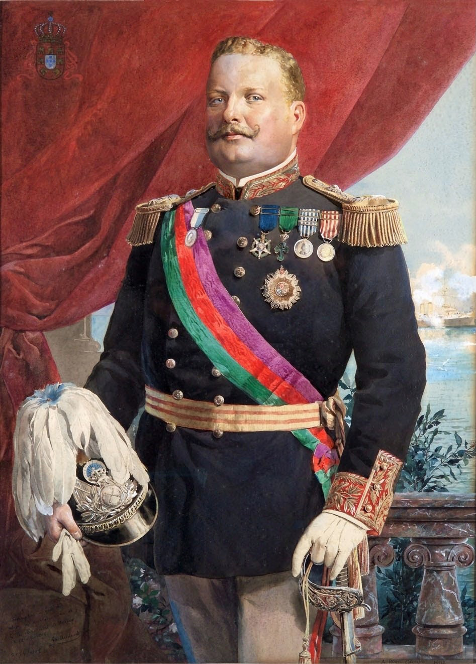 King Charles I of Portugal (1902)